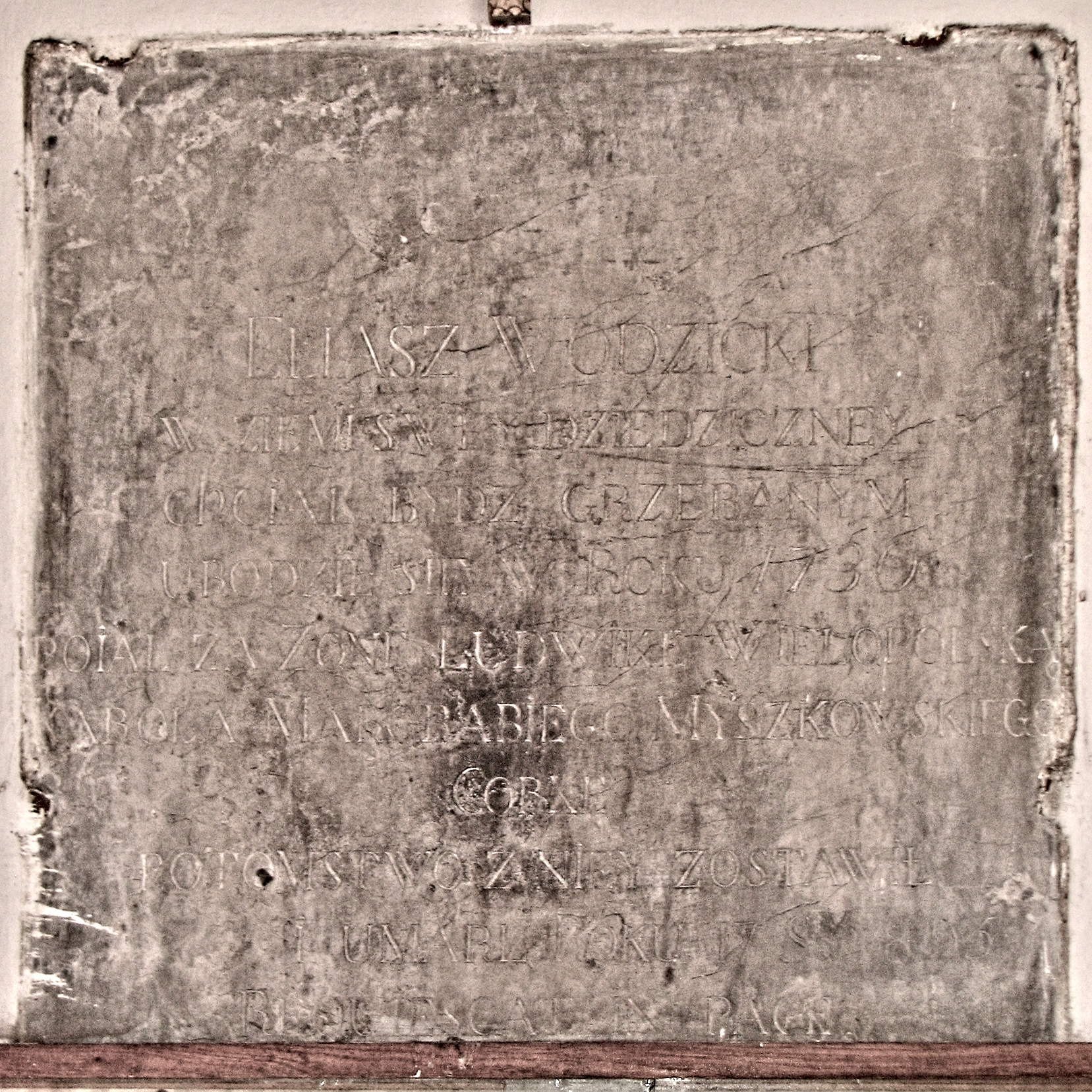 marble epitaph of Eliasz Wodzicki (1730–1805) at All Saints Church church belfry inner wall in Kraków-Górka Kościelnicka